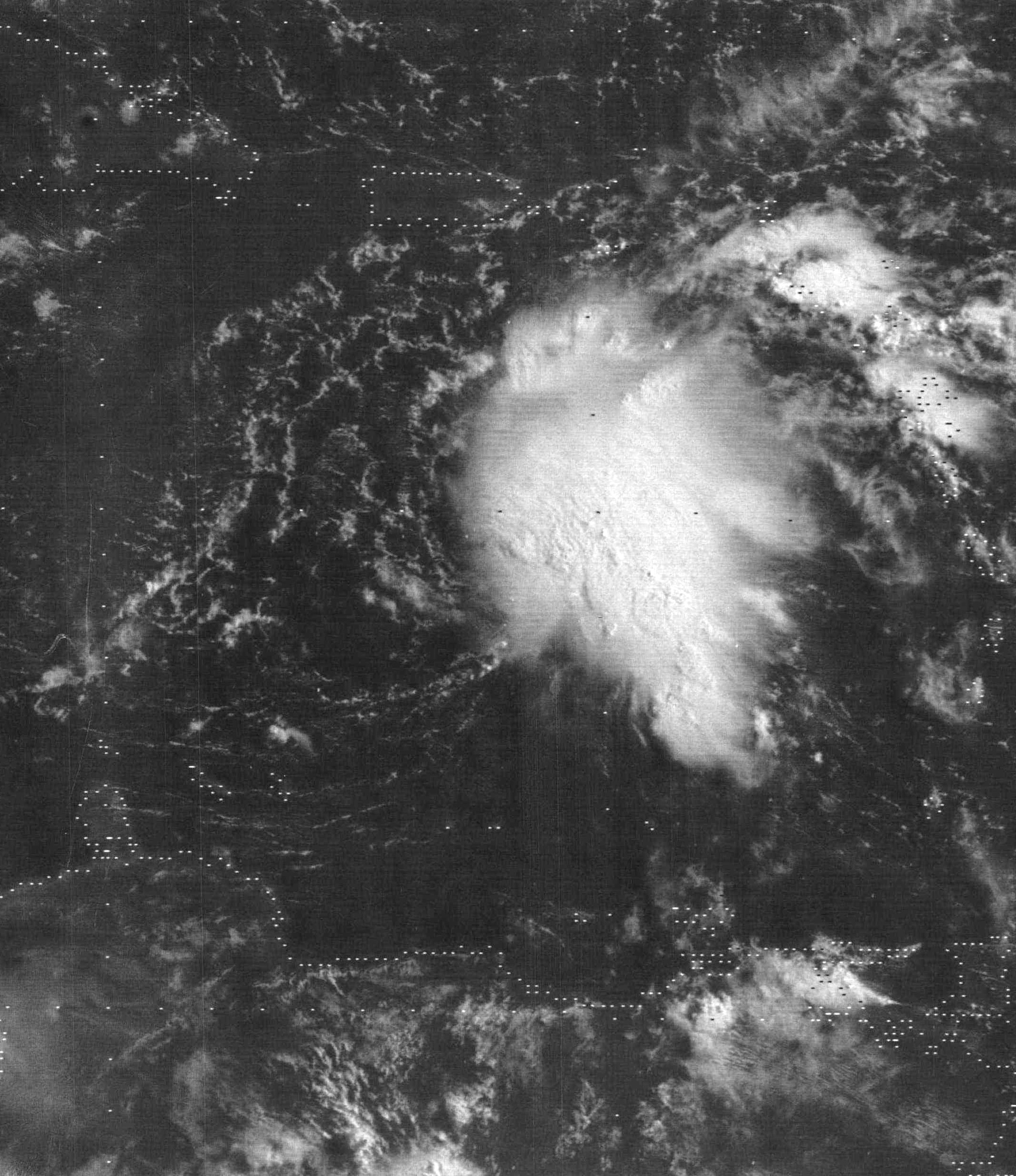 Tropical Depression One northeast of the Dominican Republic on July 29, 1983.